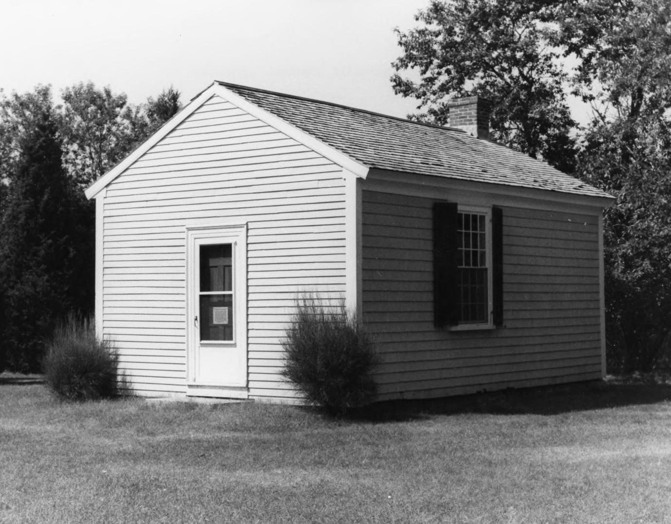 Daniel Webster Law Office, Marchfield (Plymouth County, Massachusetts) cropped - Name should have been Marshfield This image or media file contains material based on a work of a National Park Service employee, created as part of that person's official duties. As a work of the U.S. federal government, such work is in the public domain in the United States. See the NPS website and NPS copyright policy for more information. Object location42° 04′ 18″ N, 70° 40′ 26″ W